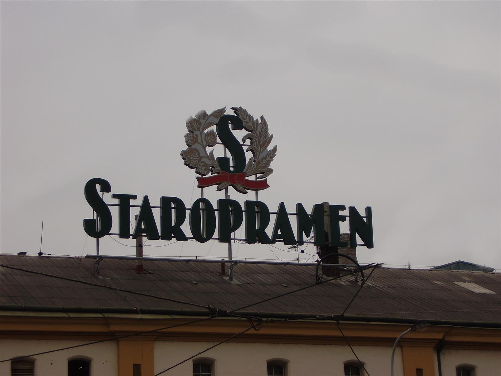 Staropramen logo on brewery, Prague, Smíchov